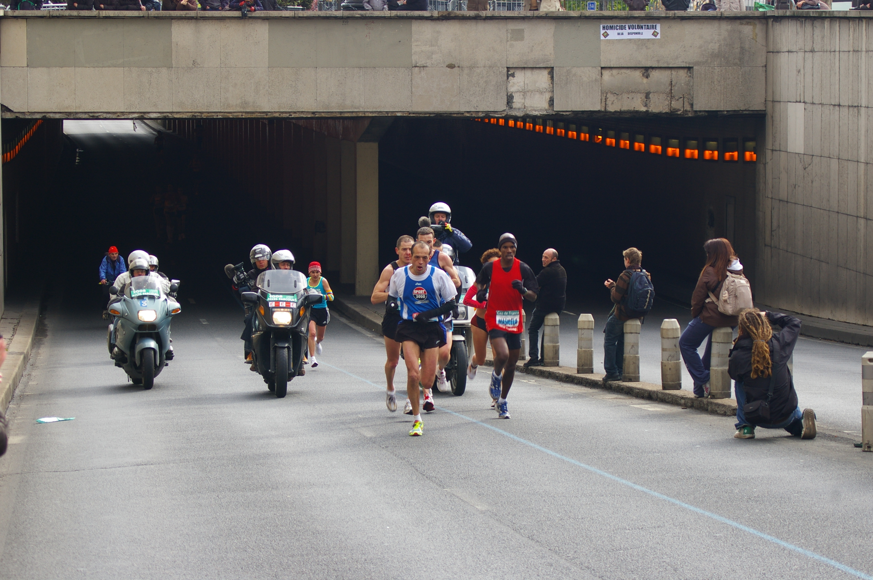 2008 Paris Marathon.